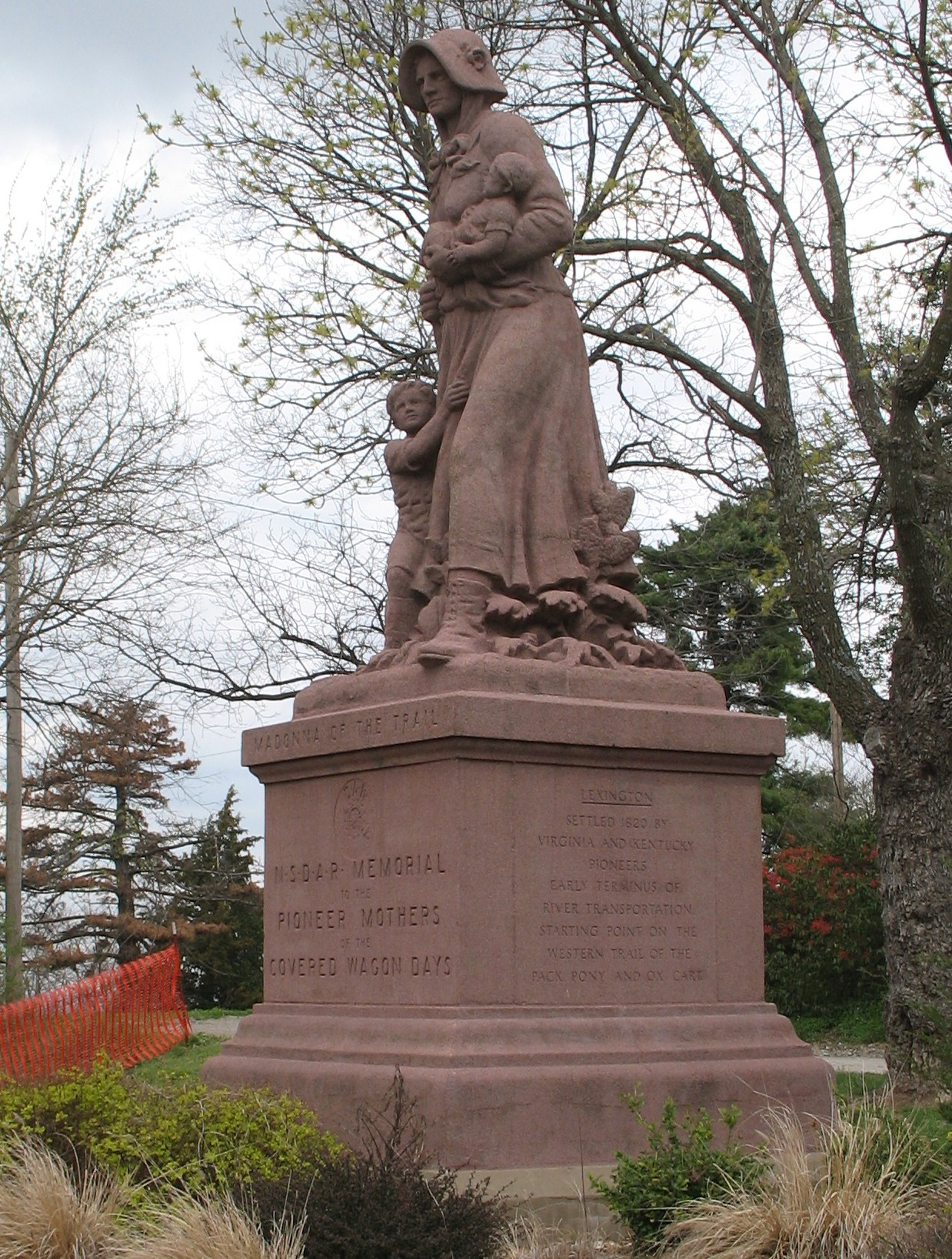 Madonna of the Trail monument in Lexington, Missouri which was dedicated by Harry S. Truman in 1928. Photo by poster in March 2007.